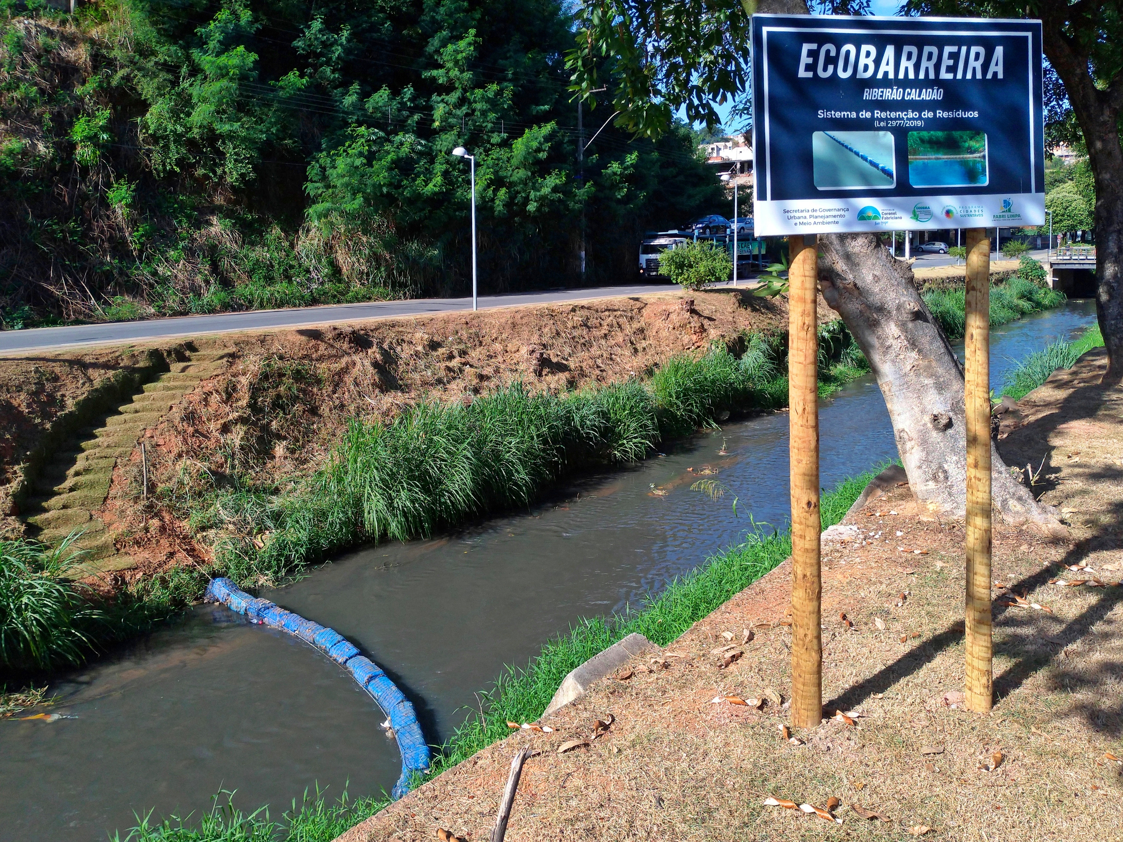 Eco-barrier in the Caladão Stream between the Bom Jesus and Professores neighborhoods, in Coronel Fabriciano, Minas Gerais, Brazil.